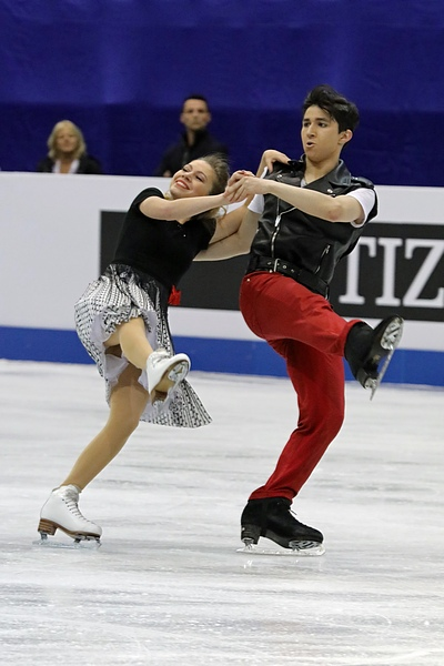 Marjorie Lajoie and Zachary Lagha - 2017 Junior Worlds